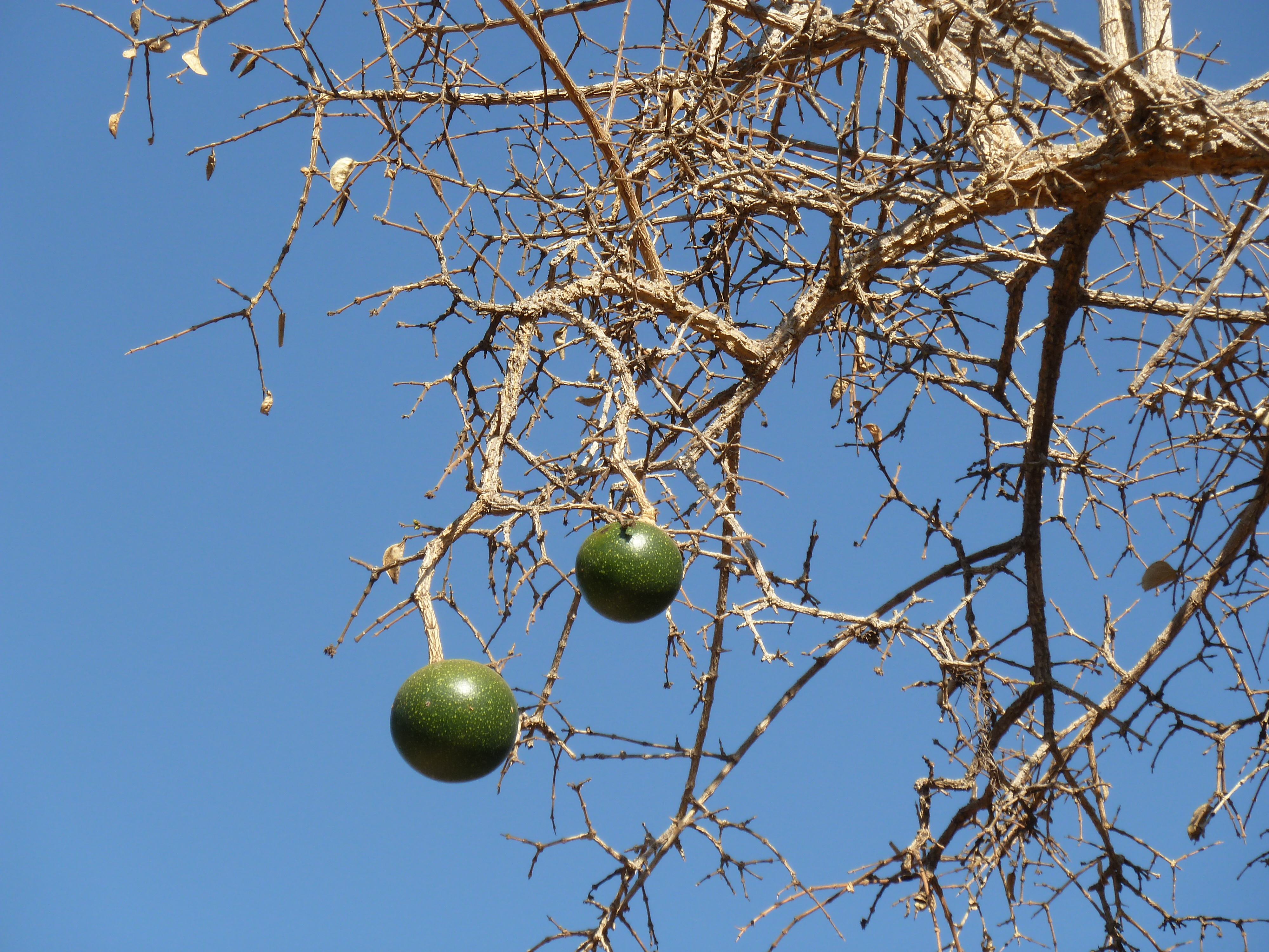 Fruit of the Corky-bark monkey-orange in the Waterberg, South Africa